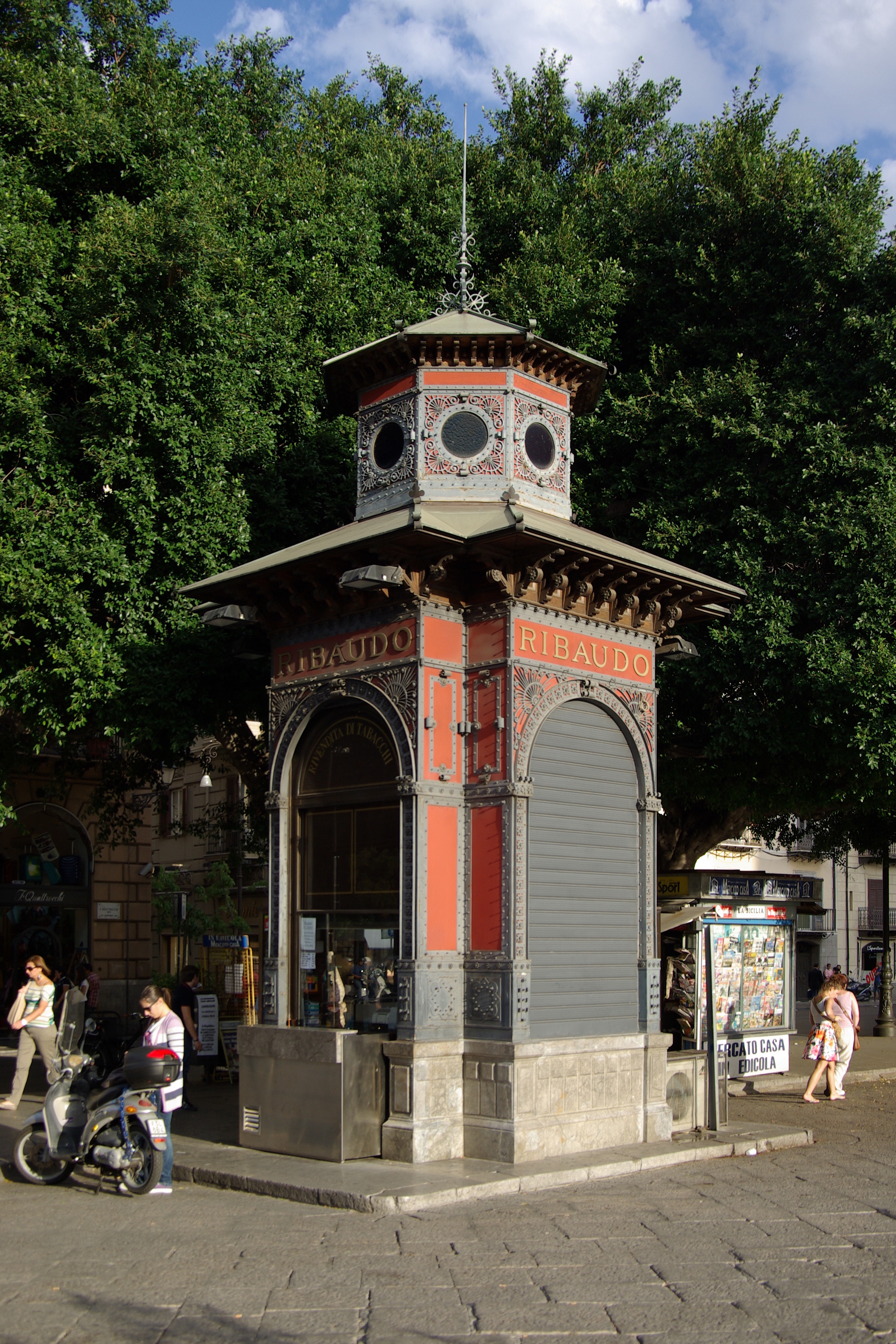 Italy, Sicily, Palermo, Tabacchi Ribaudo